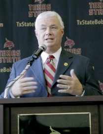 Dennis Franchione speaking at a press conference on January 7, 2011